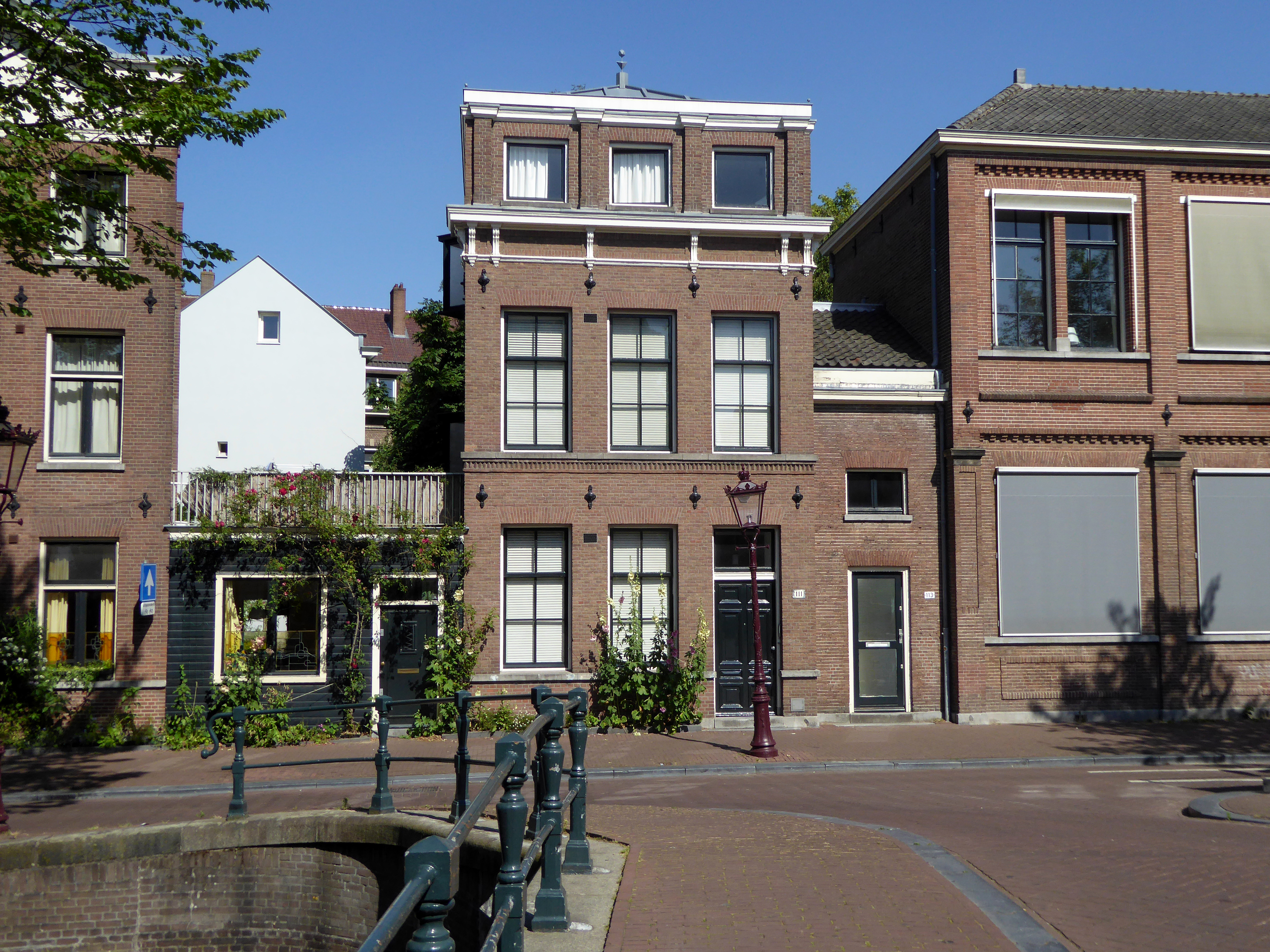 Reguliersgracht 111 Amsterdam NL c